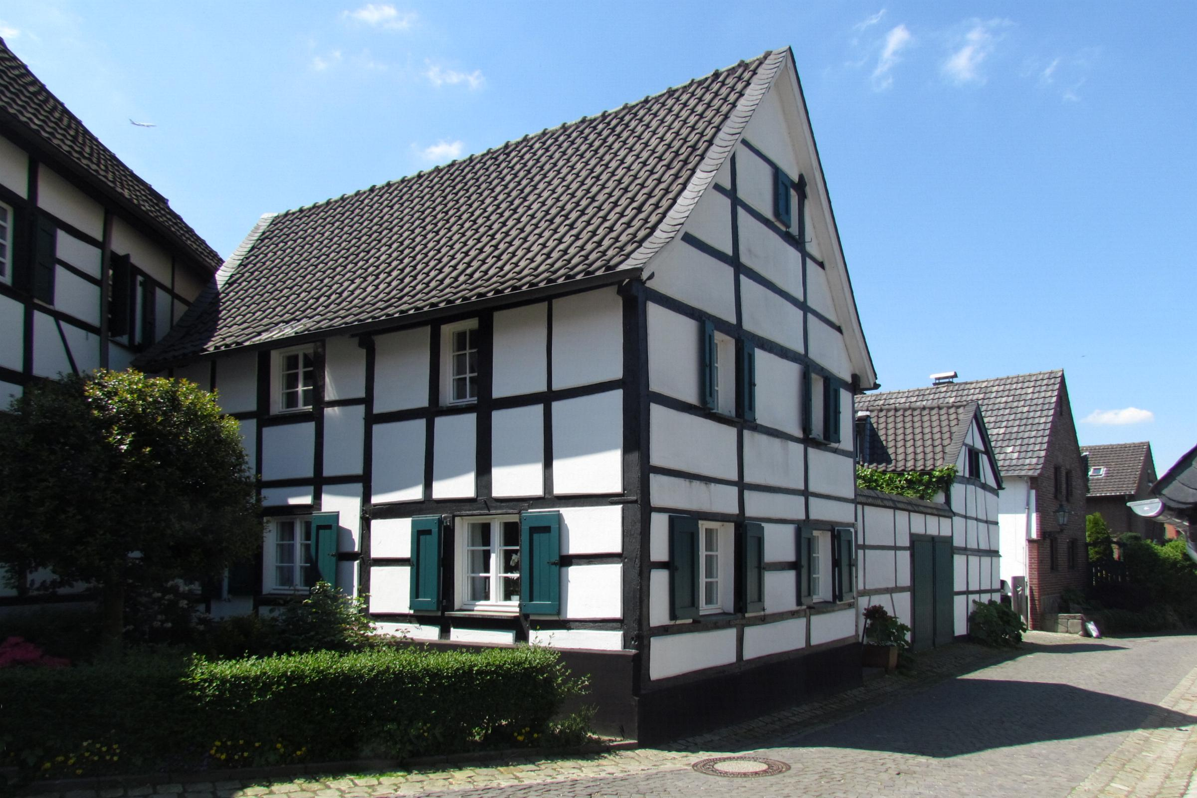 This is a photograph of an architectural monument.It is on the list of cultural monuments of Korschenbroich